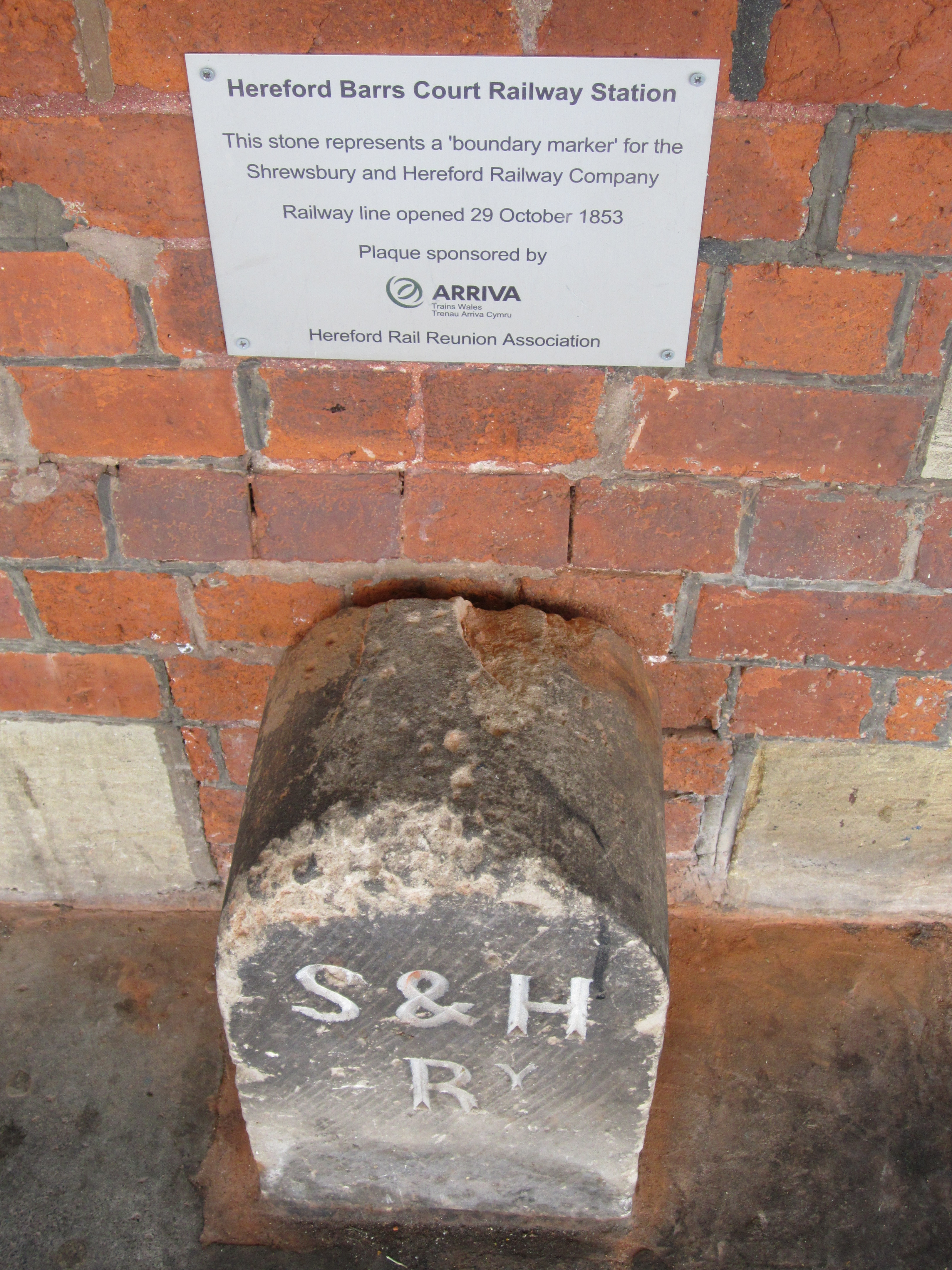 Hereford railway plaque and station boundary marker stone, England.